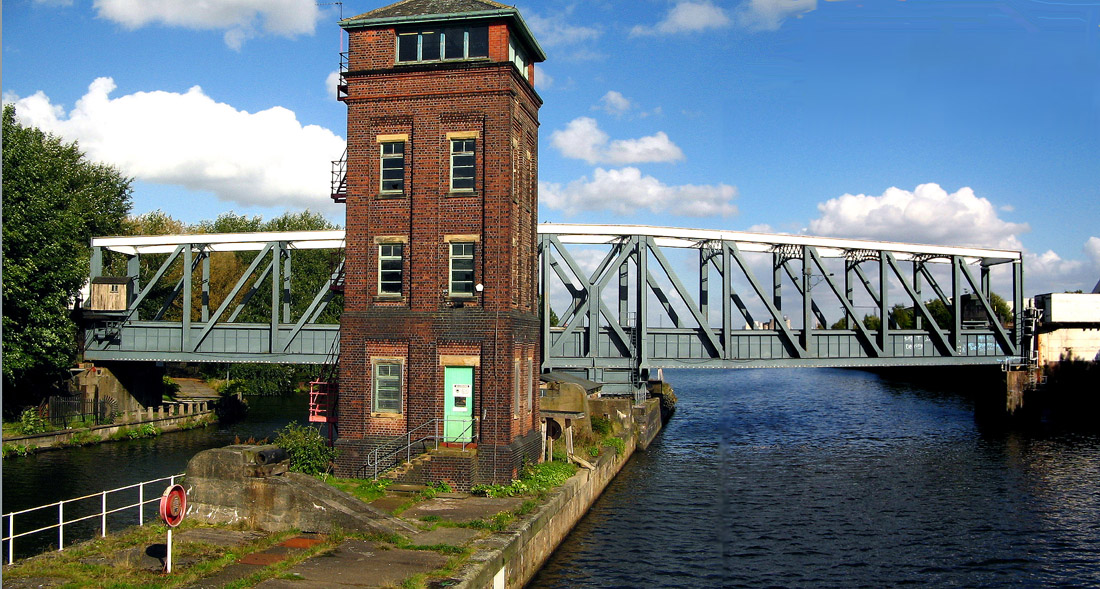 The Barton Swing Aqueduct near Eccles in Greater Manchester. It takes the Bridgewater Canal over the Manchester Ship Canal. Photo by G-Man